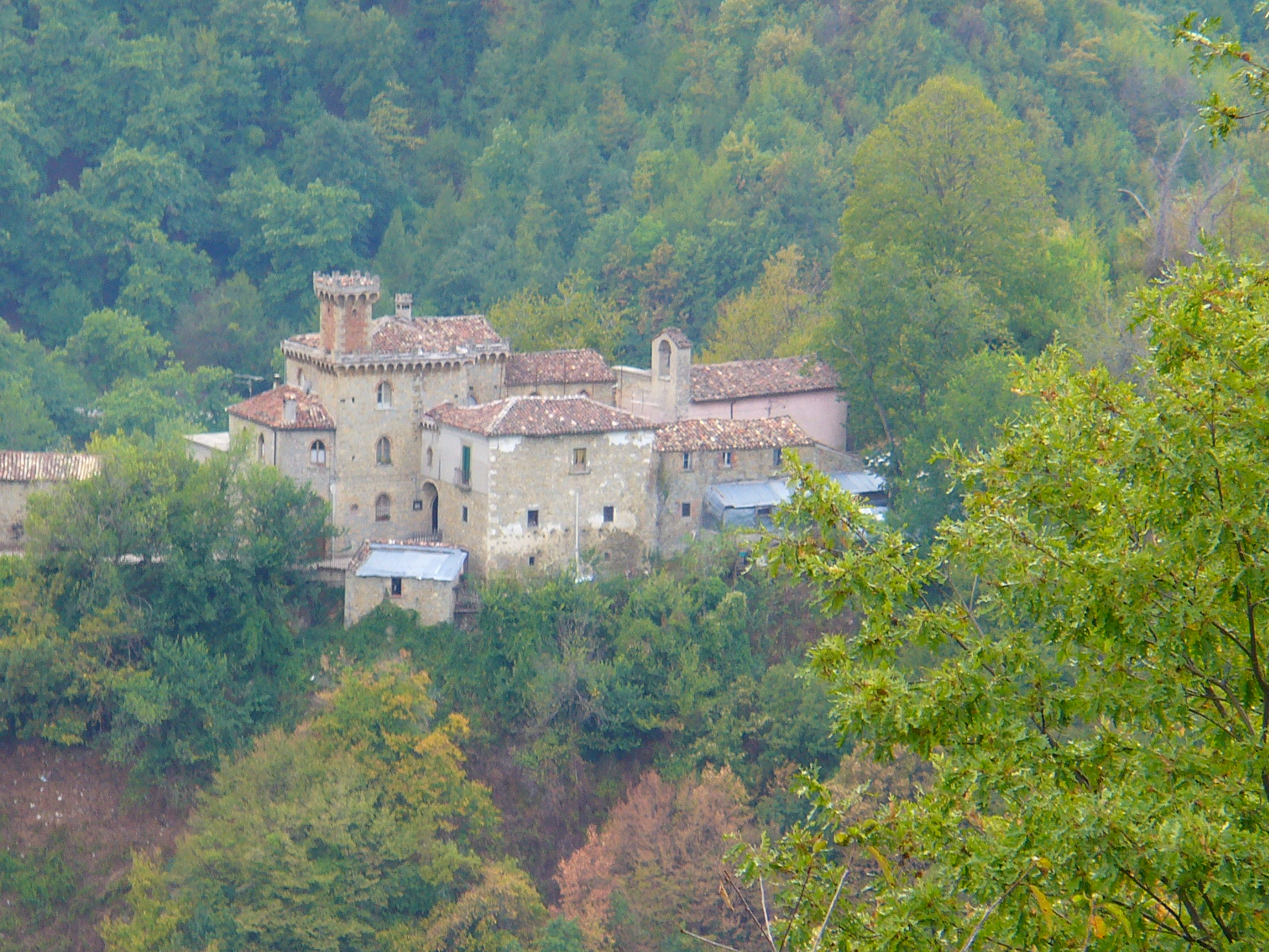 Castello Bonifaci in Vallenquina, Valle Castellana, in the Province of Teramo, in the Abruzzo region of central Italy.